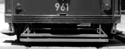 Front view of a Melbourne tram showing its deeply grooved anti-climb bumper.